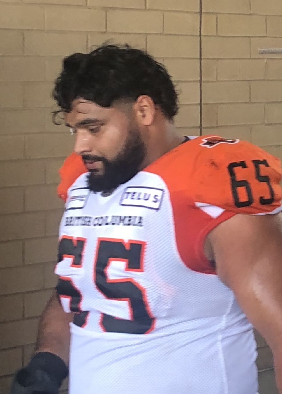 Sukh Chungh, offensive lineman for the BC Lions.